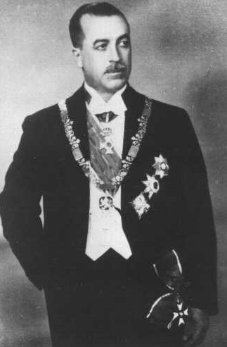 Portrait of Alexander Stanishev from Kukush, Aegean Macedonia